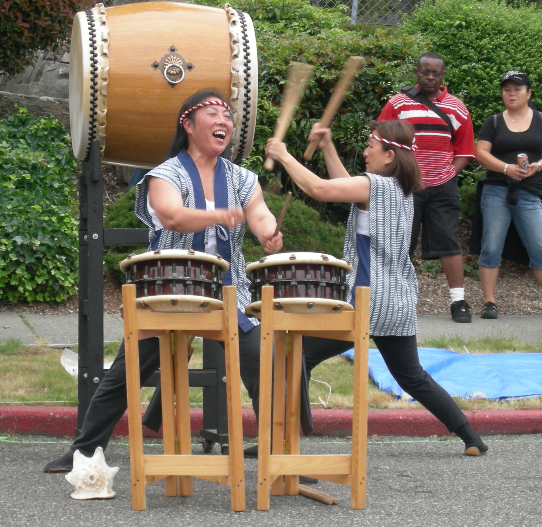 Northwest Taiko perform at the 75th anniversary Seattle Bon Odori Festival, Seattle, Washington. The event is part of Seattle's Seafair (a series of annual summer events).